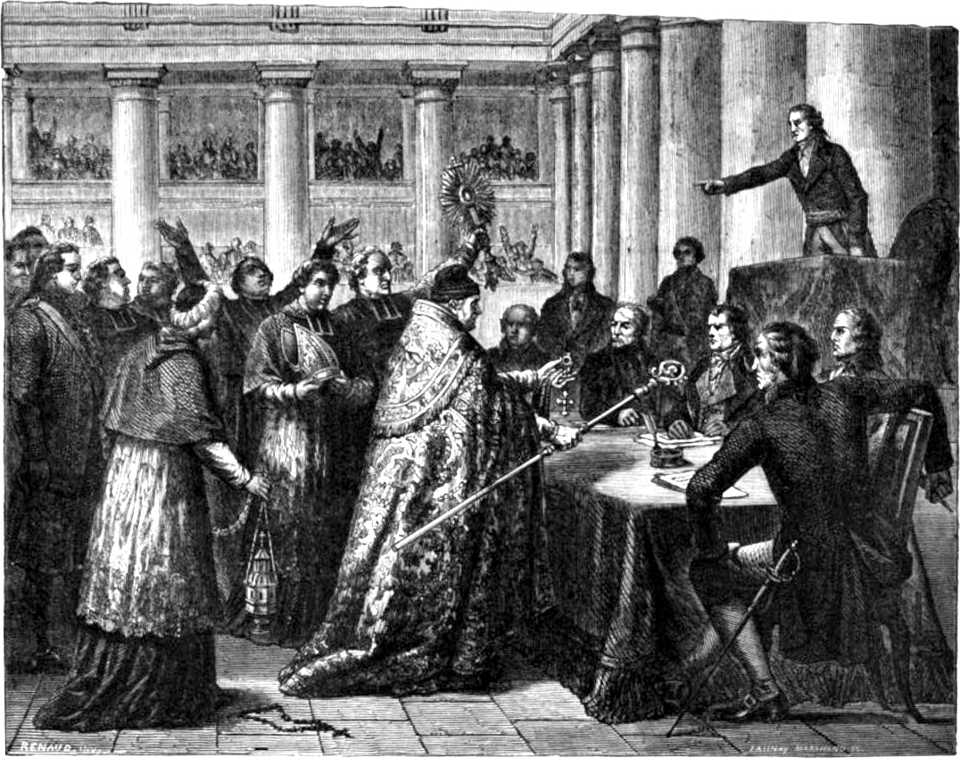 The Princes of the French Church swearing the Oath demanded by the Concordat of 1801